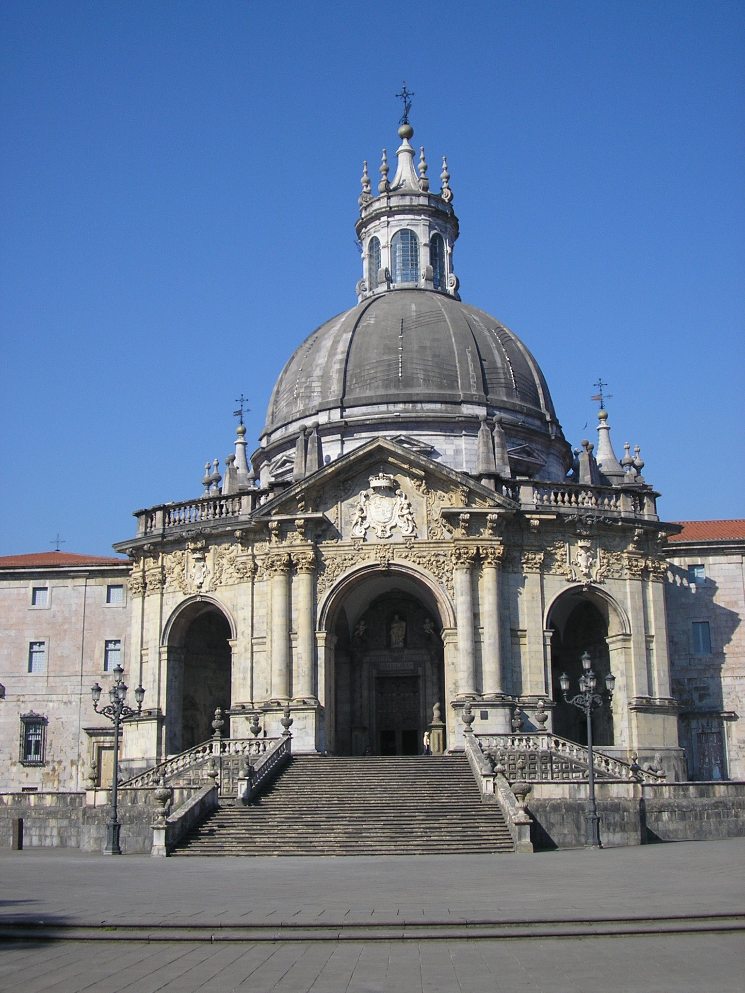 Santuario De Loyola, Basque Country, Spain.